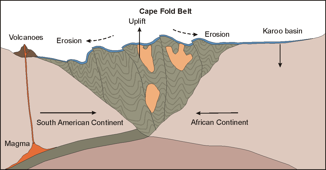 Schematic section of Formation of Cape Fold Belt by tectonic plate collision during formation of Pangaea